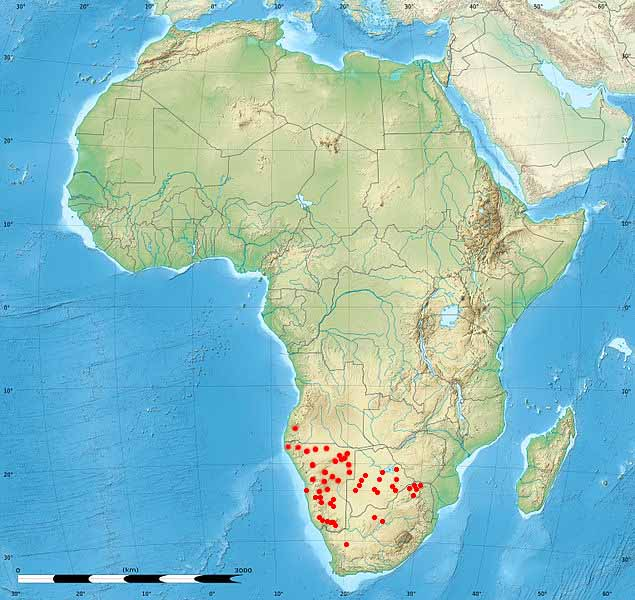 Distribution map of Catophractes alexandri D.Don using File:Africa relief location map.jpg as base